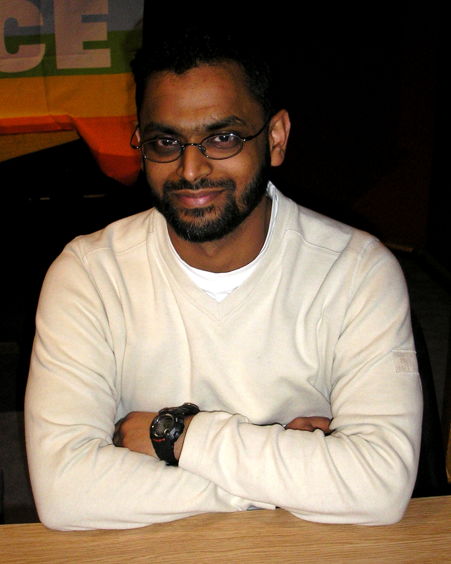 Photo of Moazzam Begg, 22 March 2003, before he spoke at a meeting about civil liberties hosted by the Respect party in Manchester. Taken by JK the Unwise with a Olympus FE-120